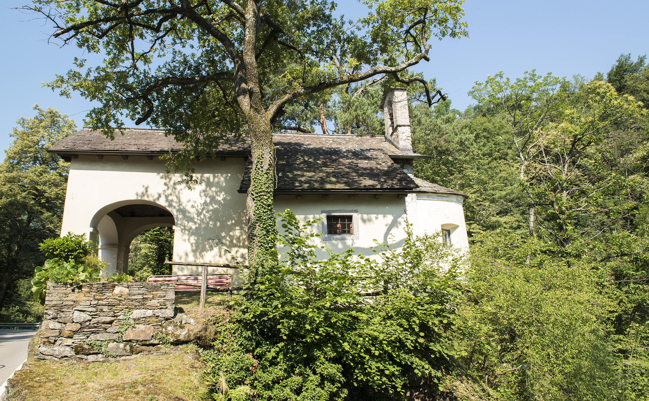 Progetto Parco Nazionale del Locarnese - Arcegno - Oratorio della Madonna della Valle